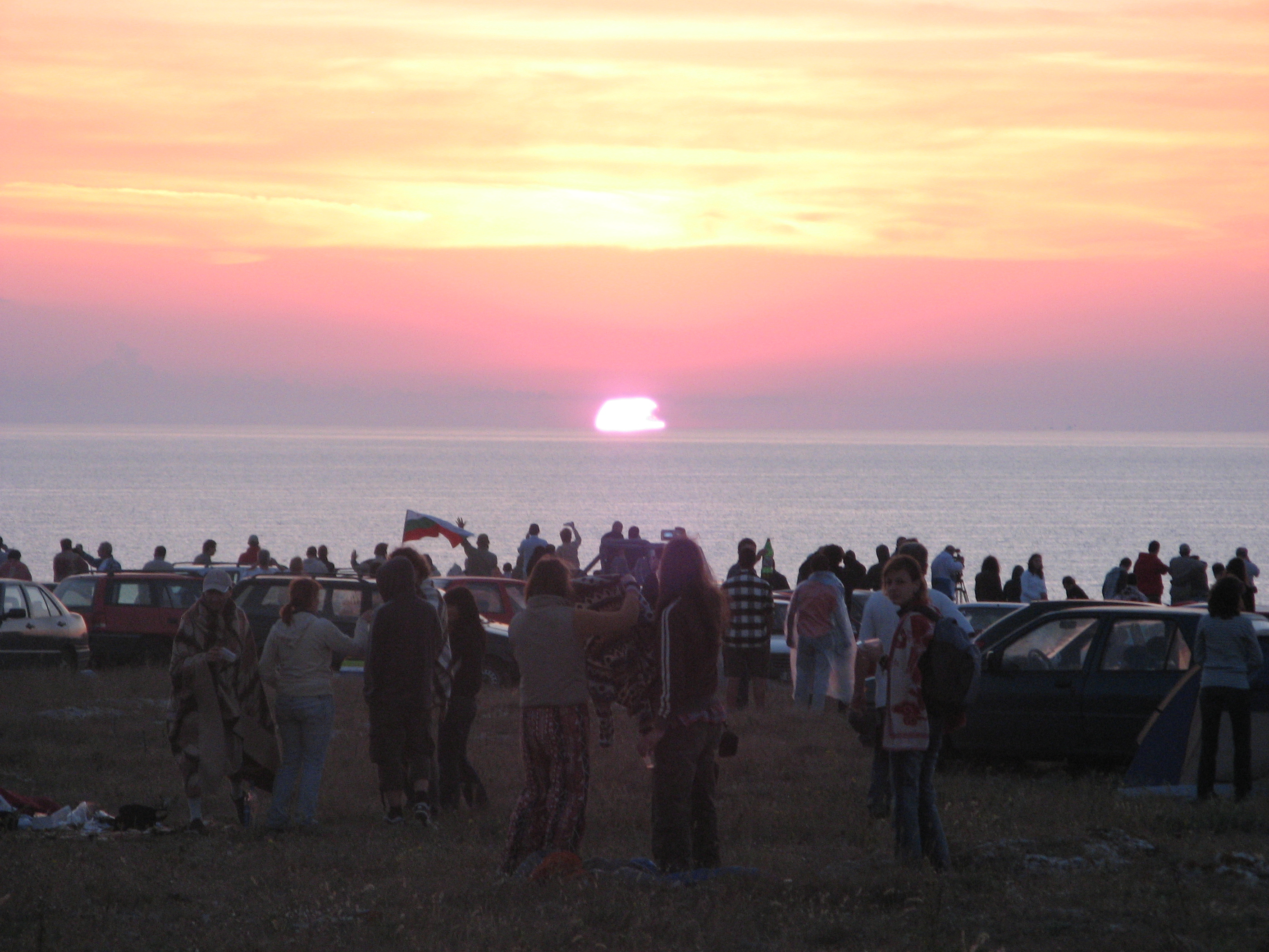 July morning on Kamen Briag, Bulgaria